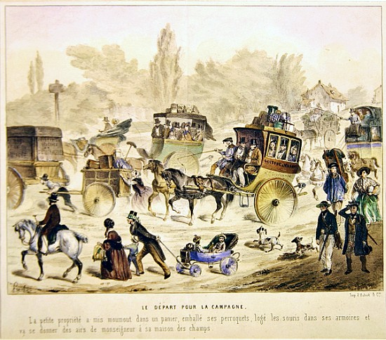 Lithographie en couleurs, cir. 1840's (Paris, France).